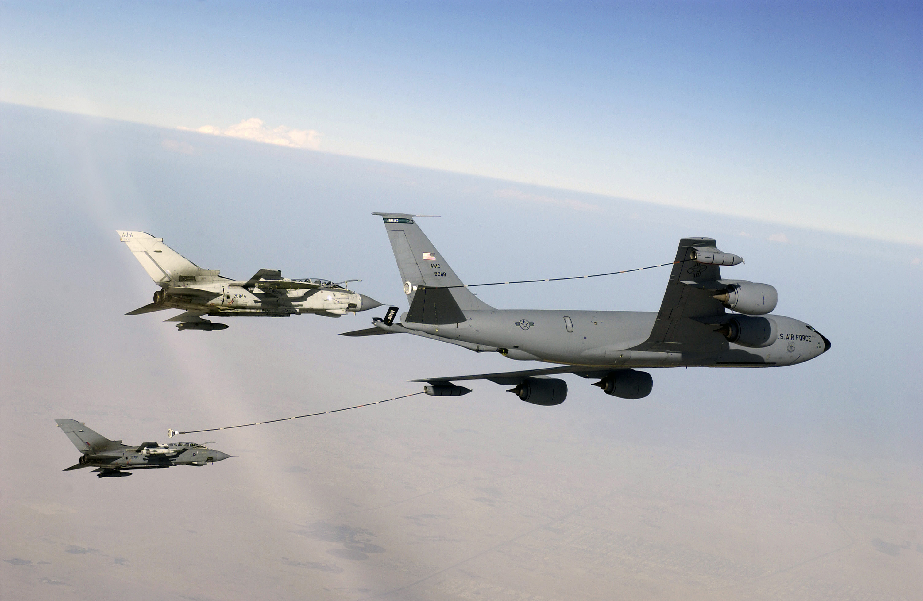 Boeing KC-135R Stratotanker with Mk32B refueling pods Original Caption: A pair of Royal Air Force (RAF) GR4 Tornadoes, No. 617th Squadron, RAF Lossiemouth, United Kingdom (UK), move up to a US Air Force (USAF) KC-135R Stratotanker, 92nd Air Refueling Wing (ARW), Fairchild Air Force Base (AFB), Washington (WA), 379th Expeditionary Air Refueling Squadron (EARS), to refuel somewhere over Iraq during Operation IRAQI FREEDOM.